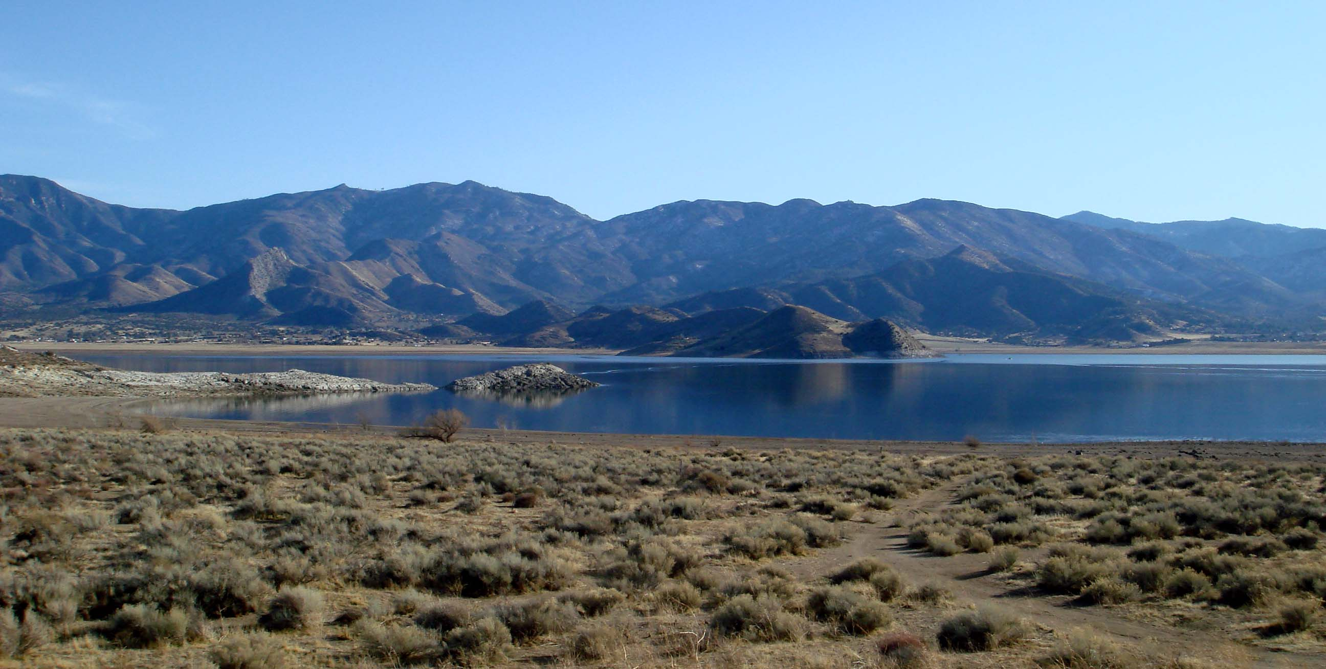 The southeast fork of Lake Isabella, in the Southern Sierra Nevada, Kern County, California. Photo taken from the northern shore facing south.